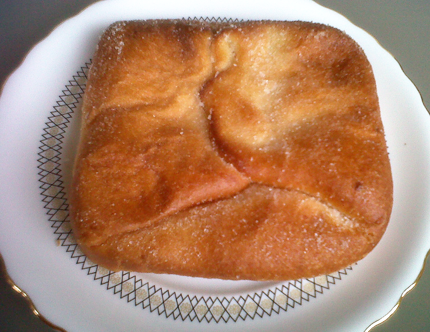 Cake "borracho" typical Tarancón (Province of Cuenca - Spain).